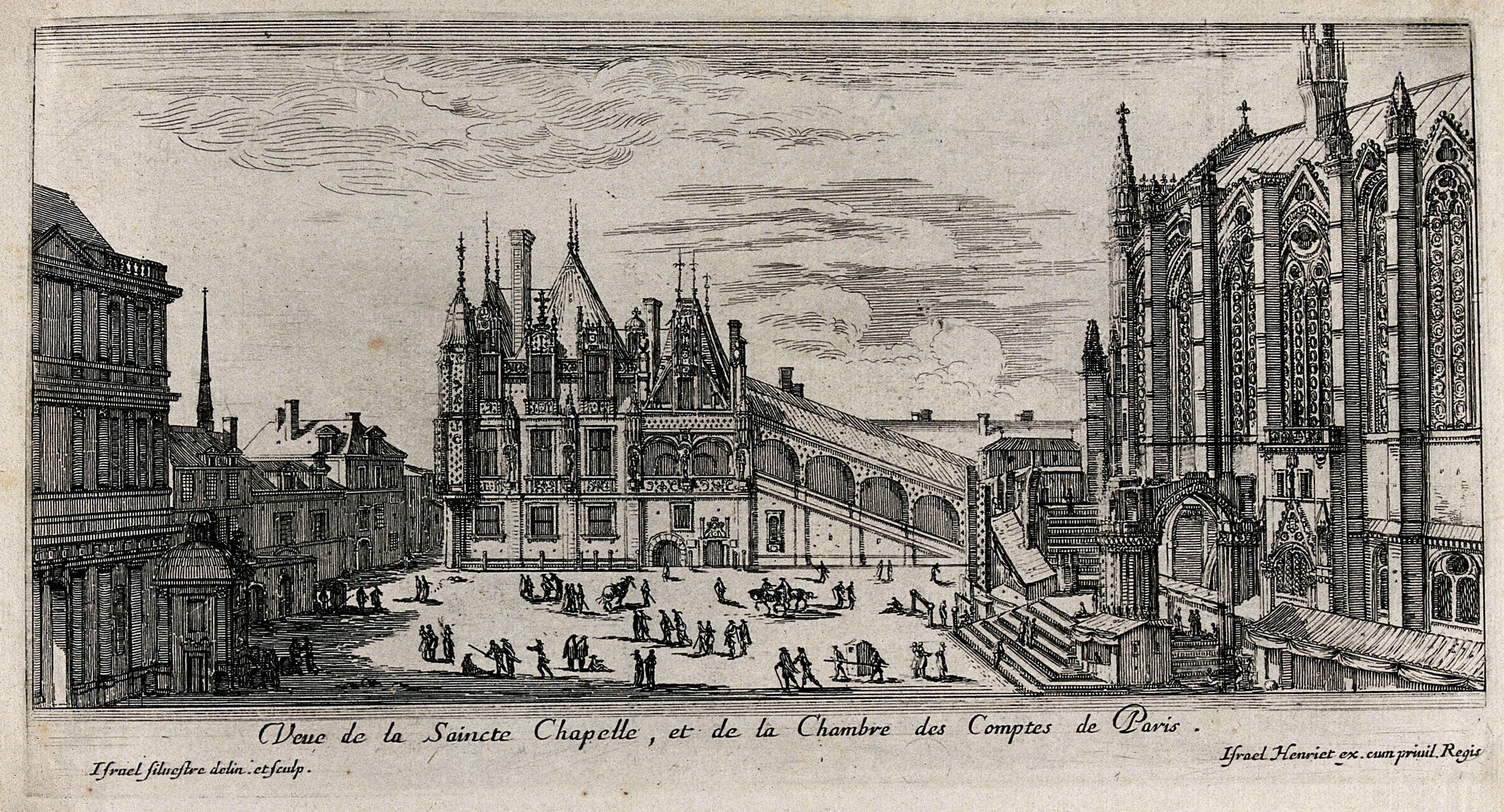 The Sainte Chapelle and the Chambre des Comptes in Paris. Etching by Israel Silvestre. Iconographic Collections Keywords: Israel Silvestre; Israel Henriet